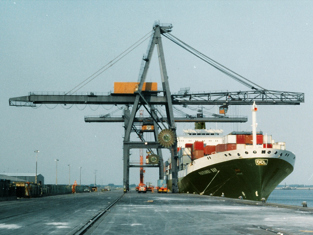 MV Mairangi Bay at Vlissingen, Netherlands 1983 Author Paul Dashwood